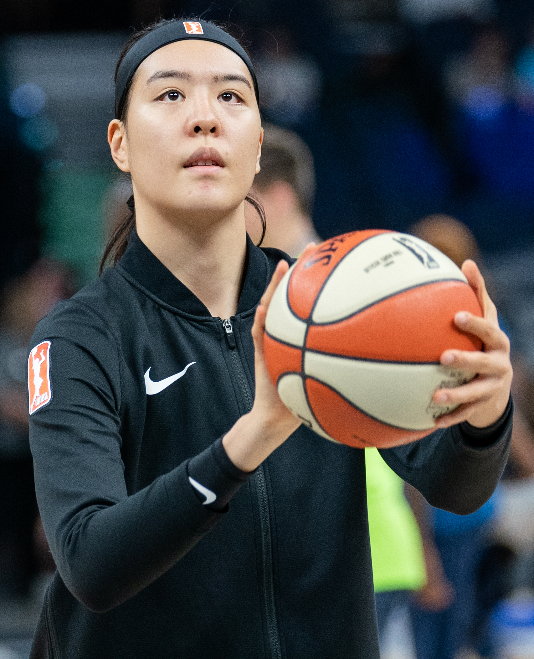 Las Vegas Aces player, Ji-Su Park, shooting a ball during warmups